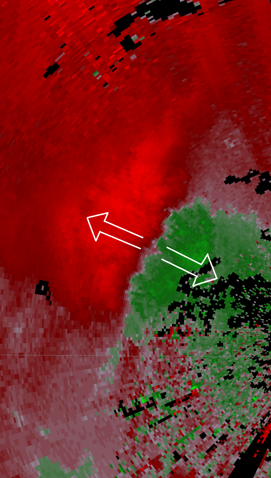 Downburst seen from the ARMOR Doppler Radar in Huntsville, Alabama in 2012. Note the winds in green going towards the radar, and the winds in red going away from the radar.